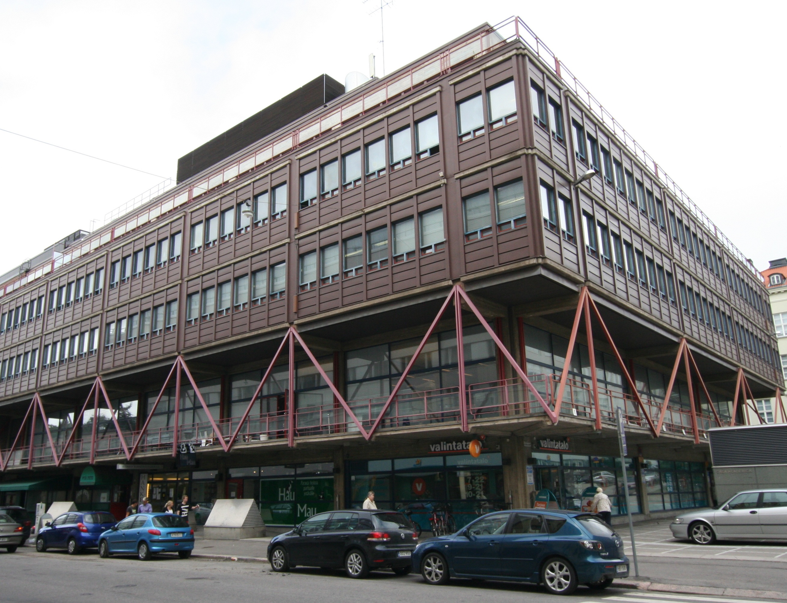 Casa Academica, Helsinki